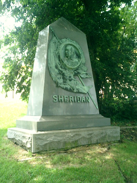 Photograph of the headstone of Union Army General Phillip Sheridan at Arlington National Cemetery, taken by RebelAt in the summer of 2005. (For questions about meta data date incongruity please see This entry on author's page). Hybrid satellite image/street map from WikiMapia